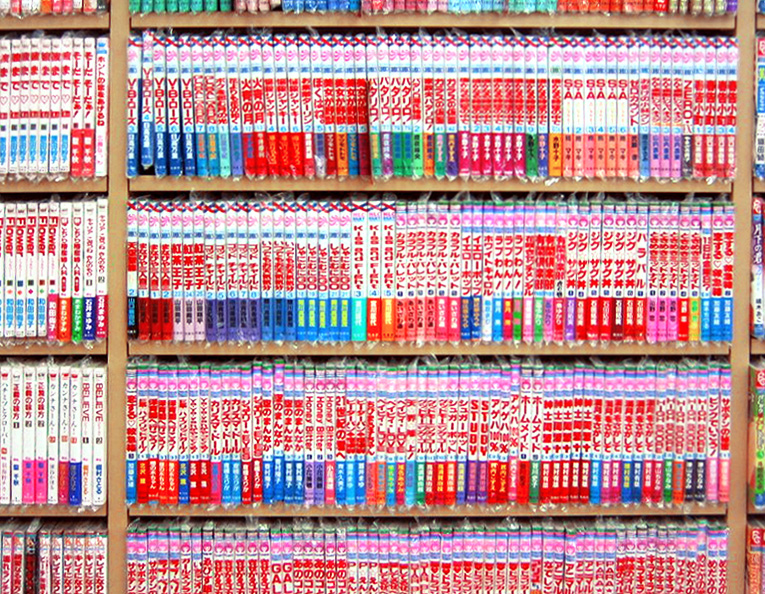 A manga bookstore somewhere in Japan